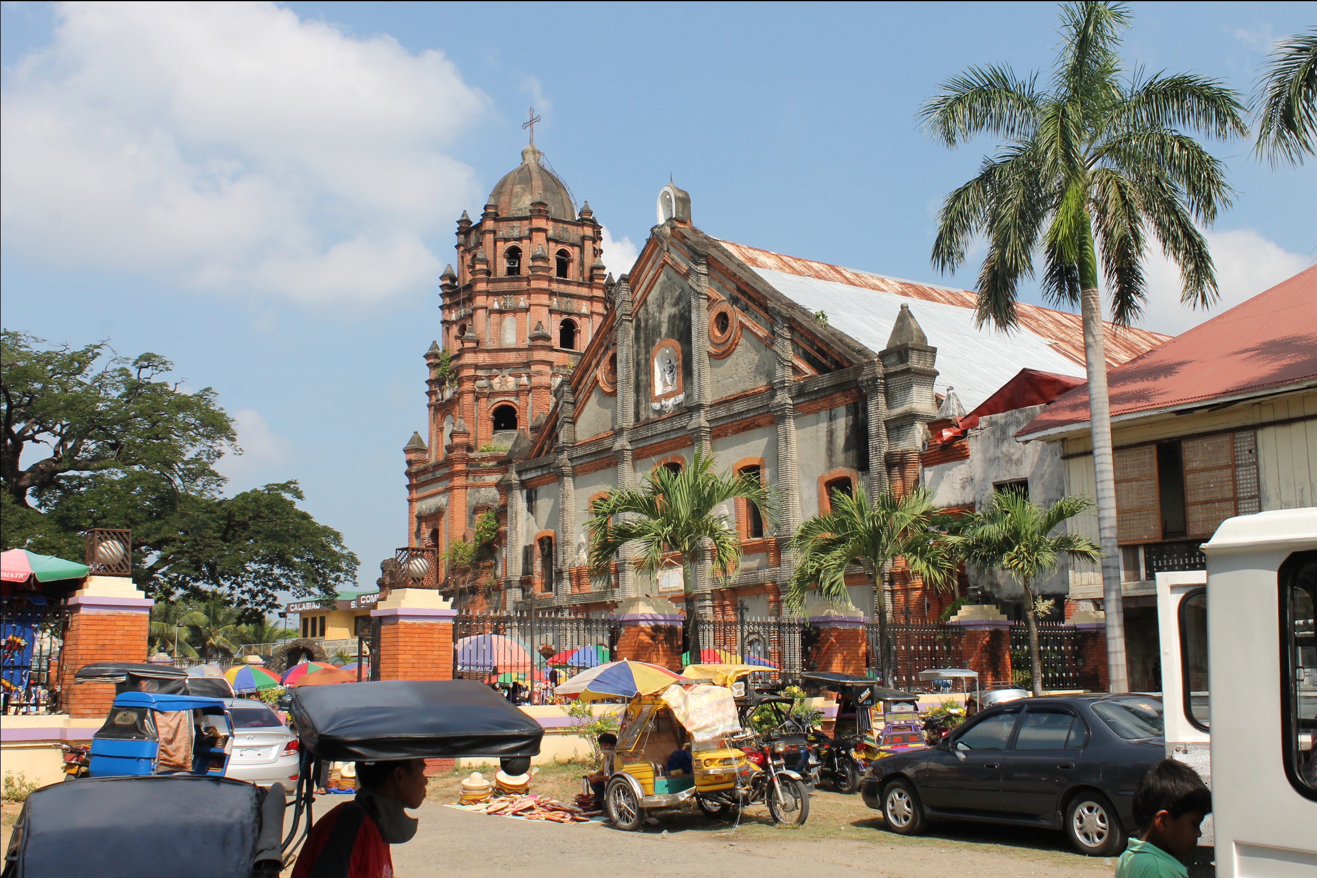 View of the Calasiao church in Calasiao, Pangasinan (PH), from the parking lot.